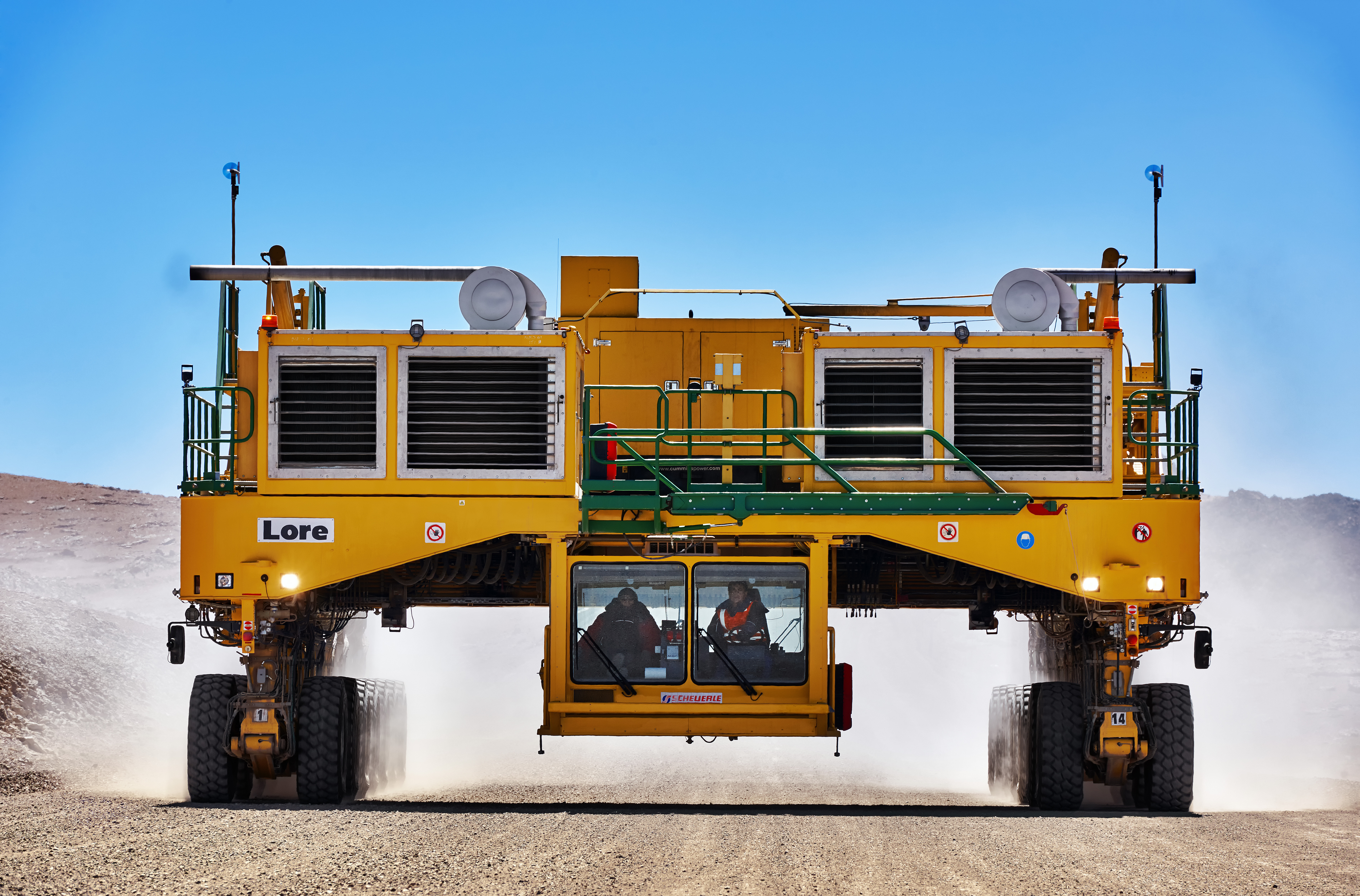 You may be wondering what a truck has to do with astronomy. Well, this is no ordinary truck — it is an ALMA transporter! At 20 metres long and 10 metres wide, this is one of a pair of custom-designed vehicles used to transport the 66 antennas that make up the Atacama Large Millimeter/submillimeter Array (ALMA). From its home at 5000 metres above sea level, high in Chile’s Atacama Desert, ALMA delivers a unique view of the low temperature Universe, allowing astronomers to study how stars form in unprecedented detail. The trucks — this one is called Lore, its sibling is Otto — move each antenna along the 28-kilometre road from the construction area at just below 3000 metres above sea level, up to the main telescope site, around 2000 metres higher. They are then used to move the antennas into different configurations corresponding to the different observing modes of the array. Rugged and tough, as befits a vehicle working under these extreme conditions, an ALMA transporter is also a delicate and precise tool, able to position an antenna to millimetre accuracy.